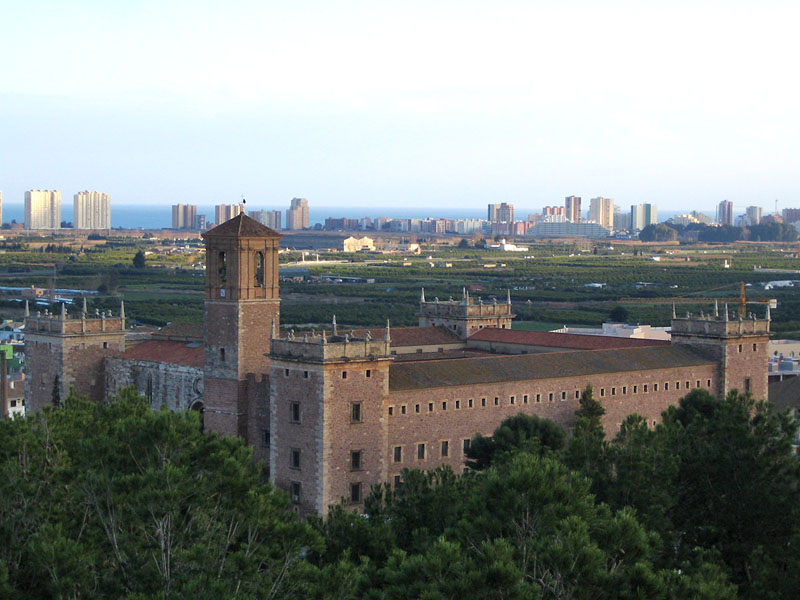 Photo of the Monastery of El Puig, county Horta, Region of Valencia, Spain.